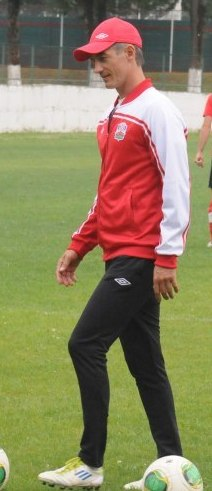 KrachenkoS